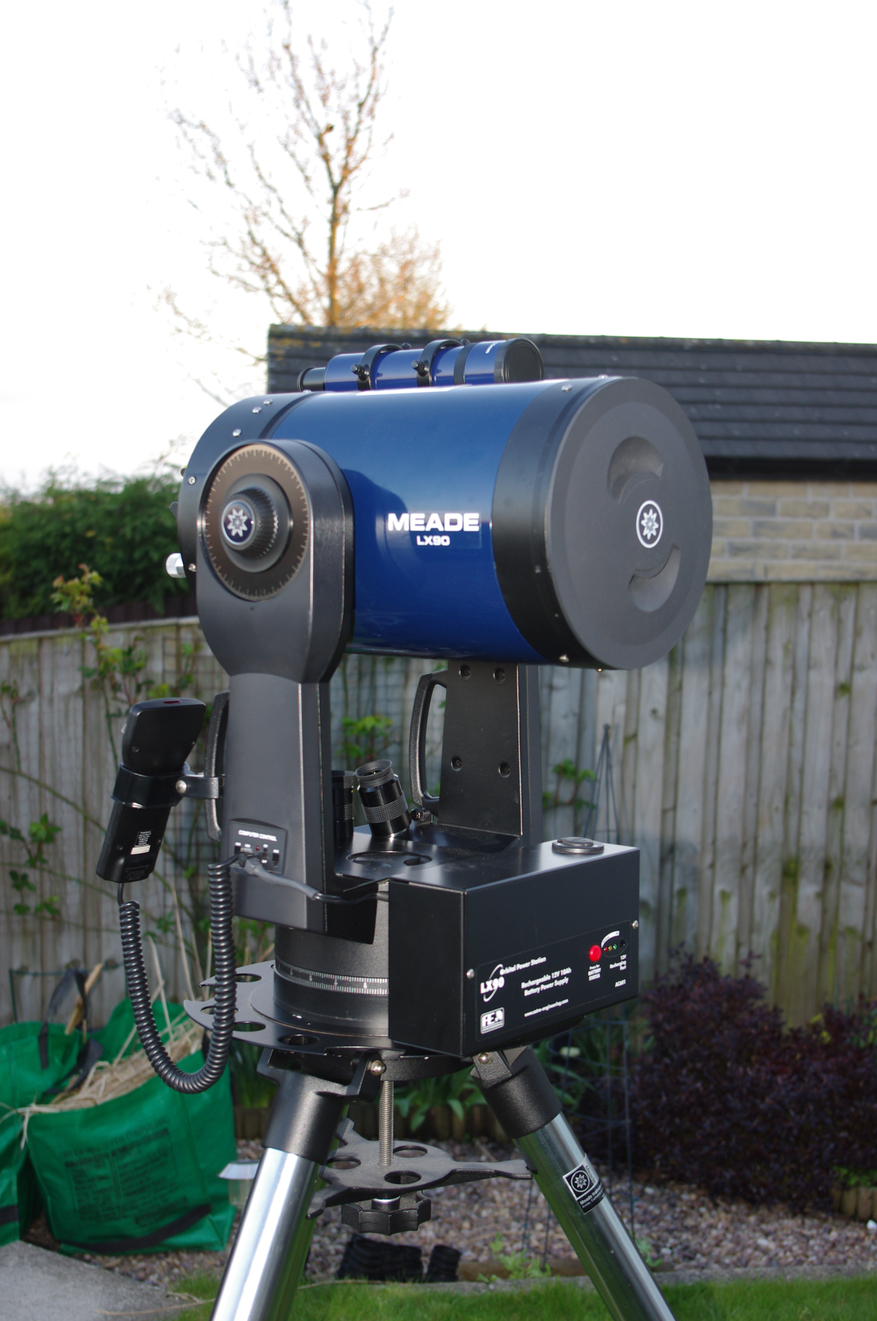 A Meade Lx90 8" Schmitt-Cassegrain. Or, a telescope with brains.